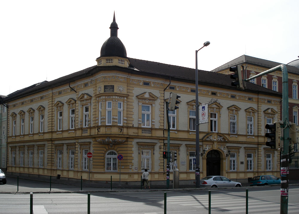 House of János Bársony. Lawyer from Miskolc, Hungary